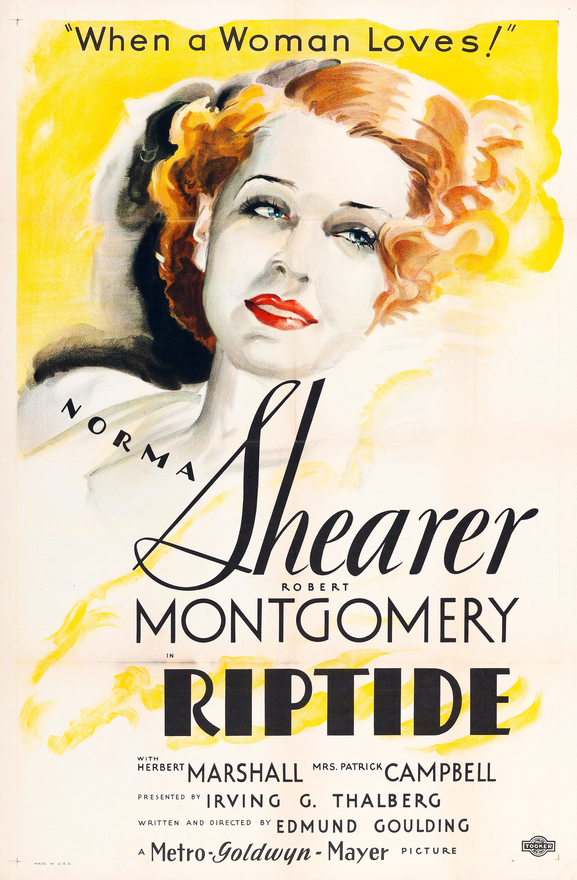 Poster for the film Riptide, featuring Norma Shearer